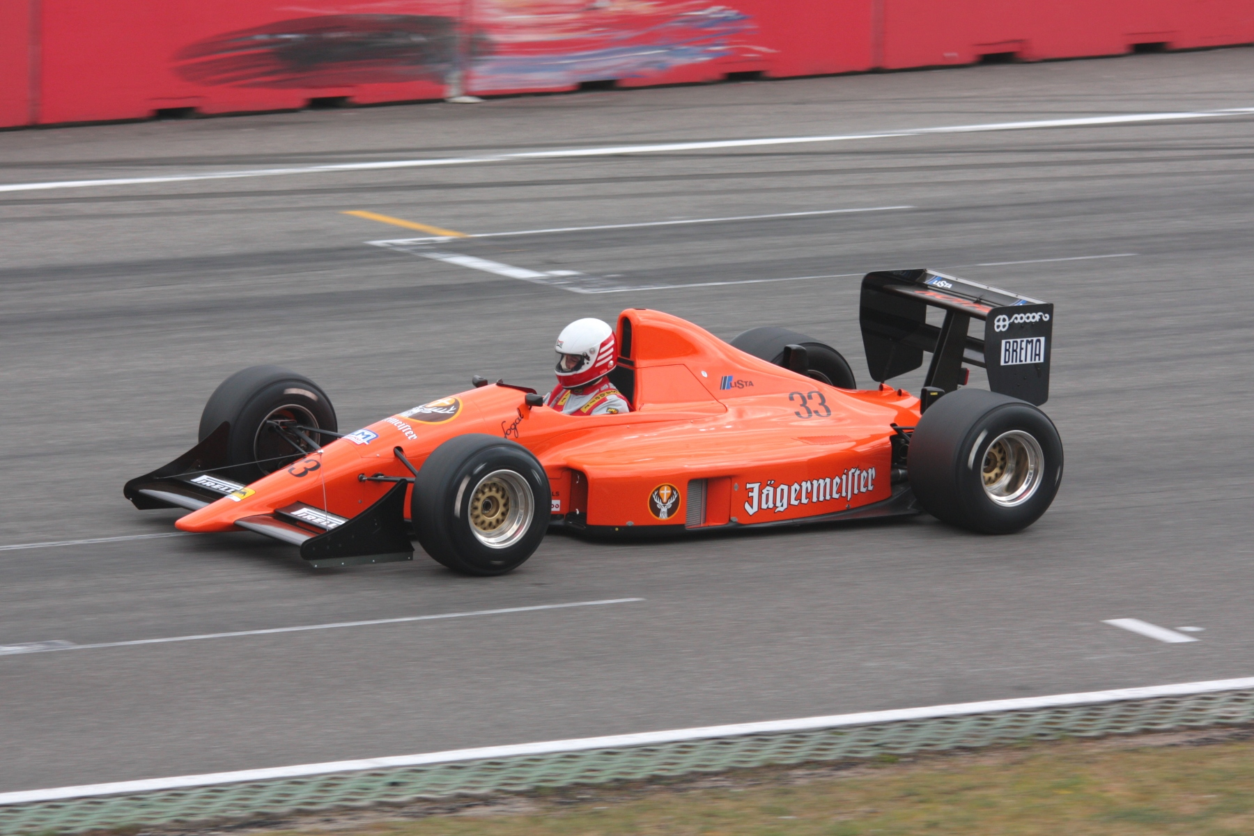 Heinrich Bücherl driving a Eurobrun ER189 at the Hockenheim Historic presentation RaceHistoryOnTrack 2011.